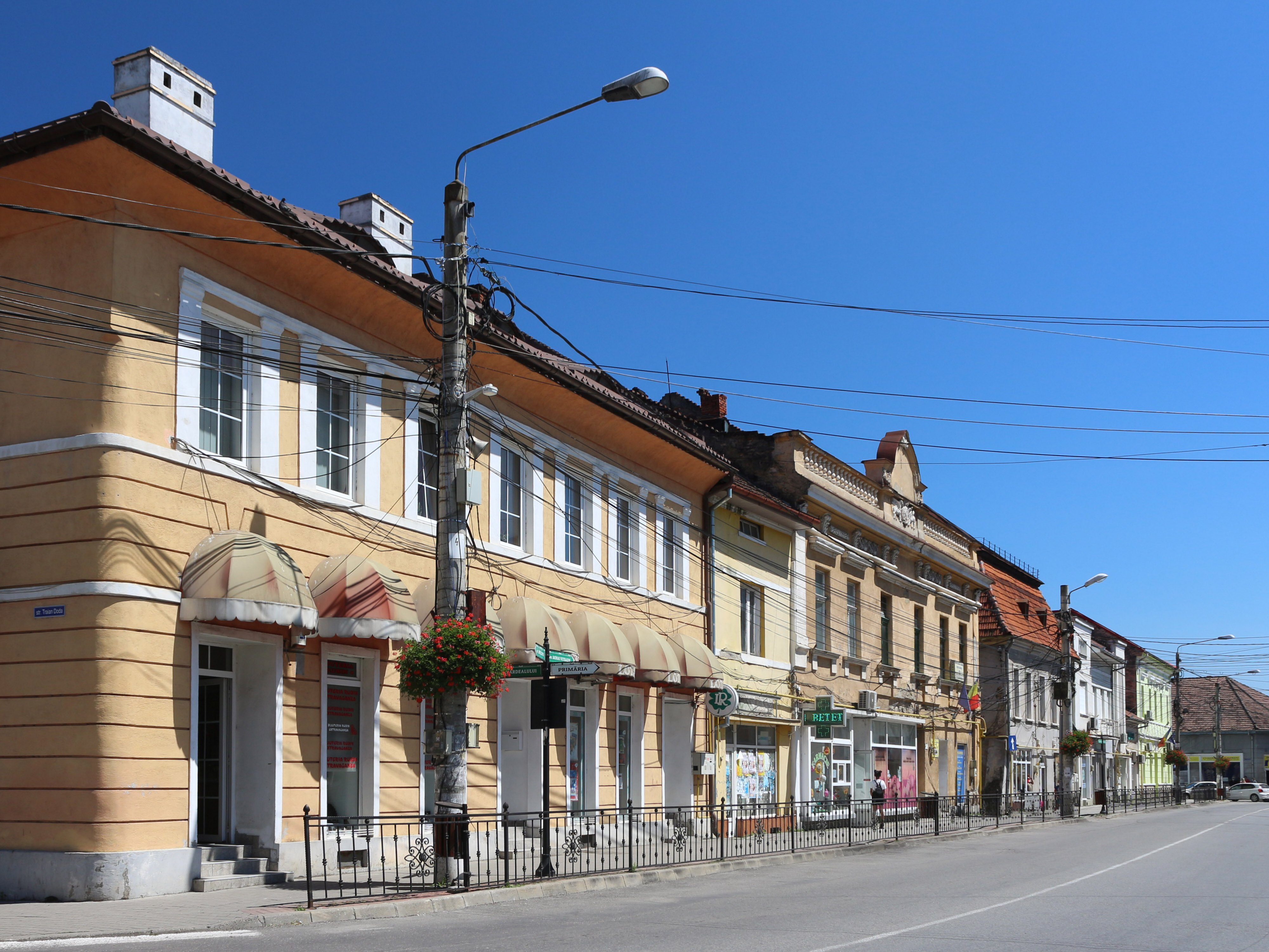 Urban ensemble Mihai Viteazul I, Mihai Viteazul St., Caransebeș, Romania, built 18th century